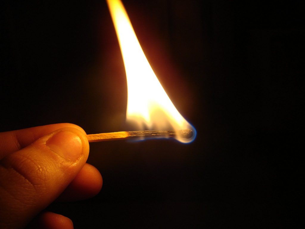 Fire in a match